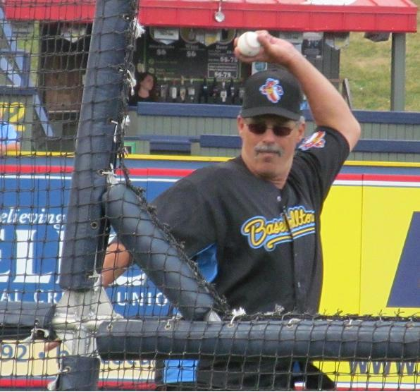 Ross Grimsley at the Eastern League All-Star Game in Reading PA 2012 07 11